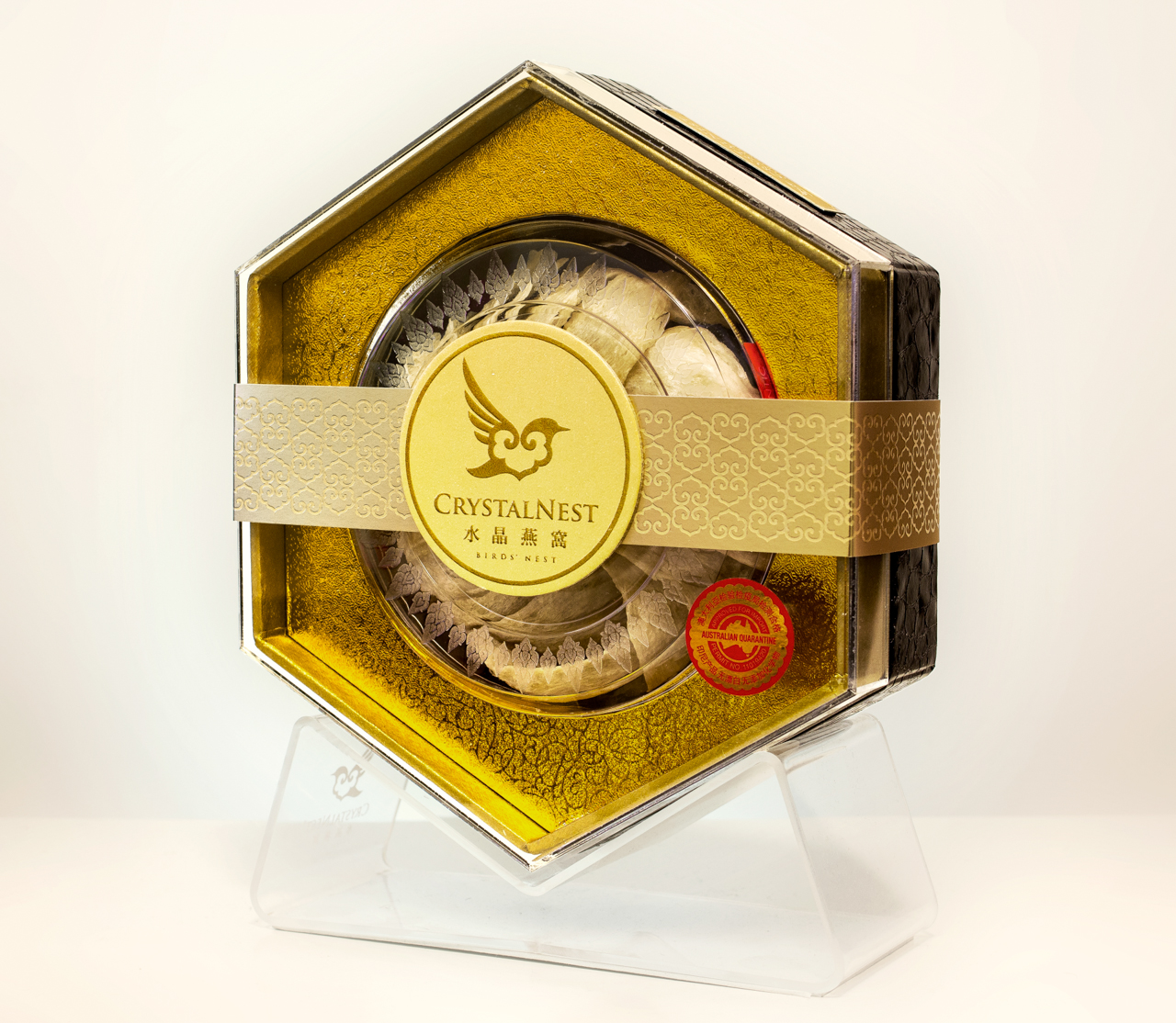 Edible Bird's Nest_Packet